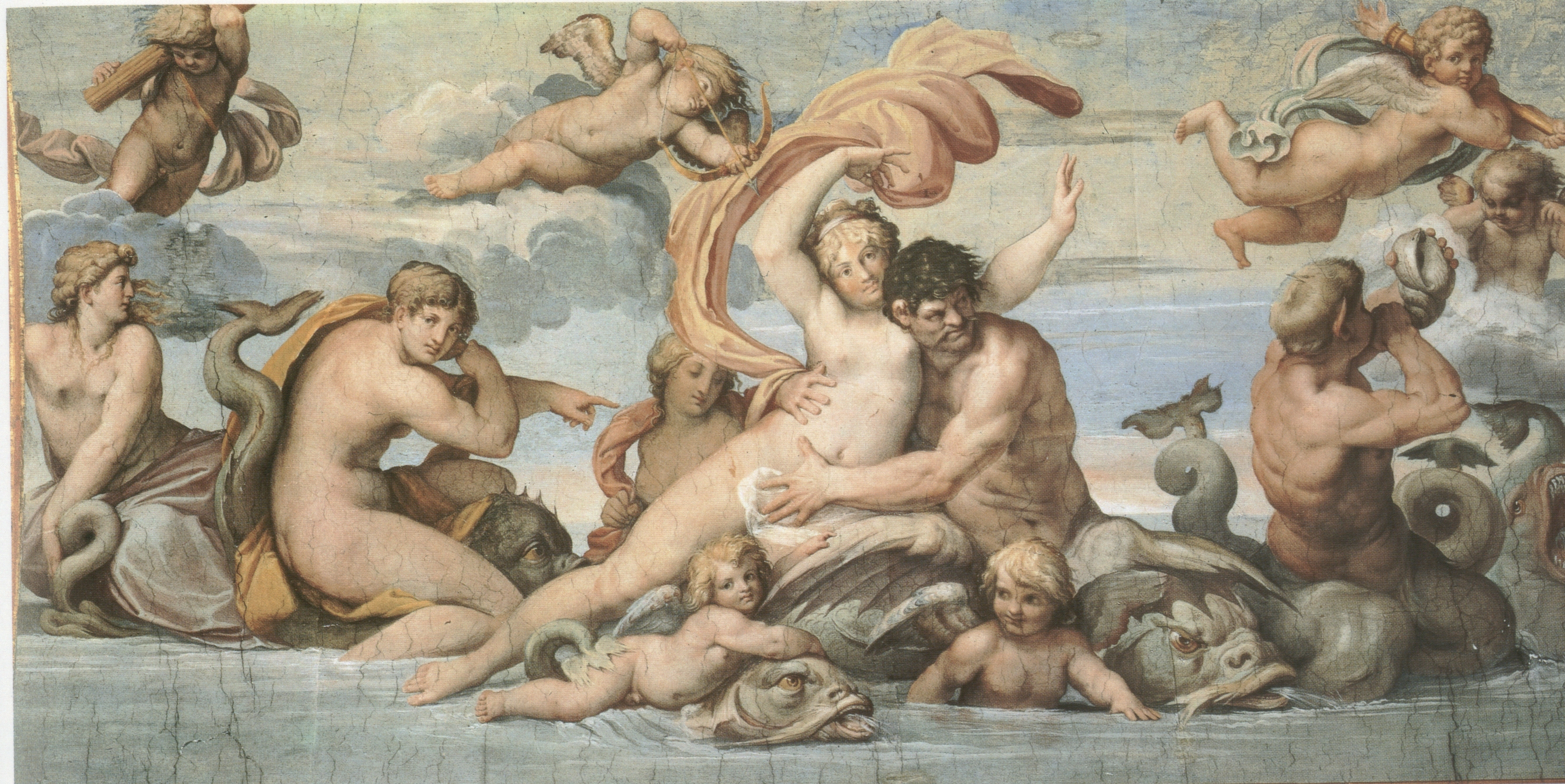 Glaucus_and_Scylla_-_Agostino_Carracci_-_1597_-_Farnese_Gallery Rome